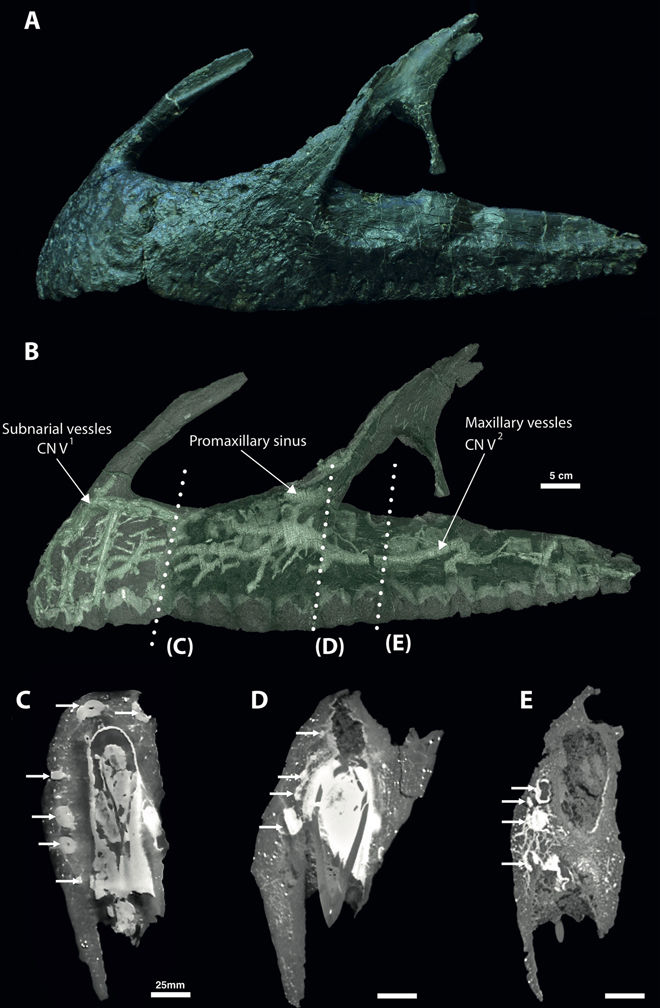 (A) Articulated premaxilla and maxilla of Neovenator holotype MIWG 6348 in left lateral view (Credit: Roger Benson). (B) Volume rendering of the segmented neurovascular network overlaid on the articulated premaxilla and maxilla. (C–E) μCT virtual sections showing lateral placement of the neurovasculature (white arrows).